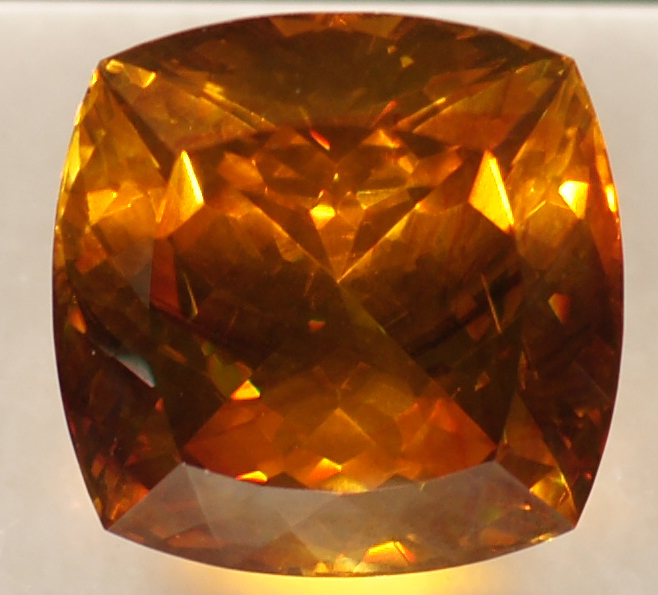 Sphalerite (Blenda acaramelada) faceted, Áliva, Camaleño, Cantabria (Spain), llamada Etoile d'Asturies, property of Lausanne Cantonal Museum of Geology 163,4 ct. Photo Saiko, modificado.